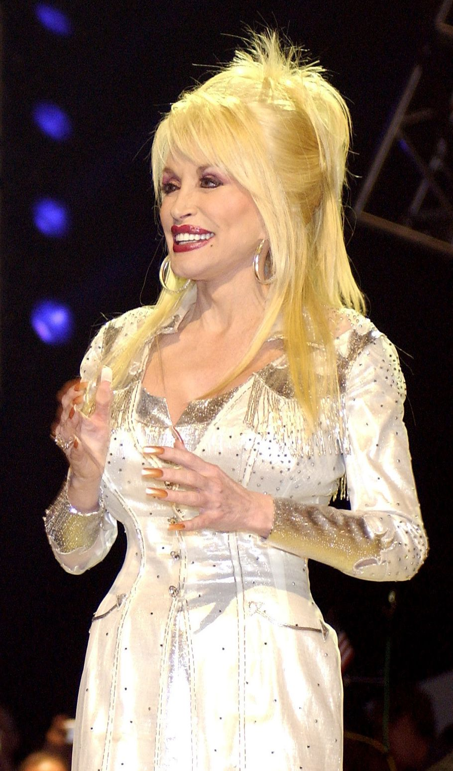 Secretary of Defense Donald H. Rumsfeld joins country music legend Dolly Parton on stage at the Grand Ole Opry during a live broadcast in Nashville, Tenn., on April 23, 2005.